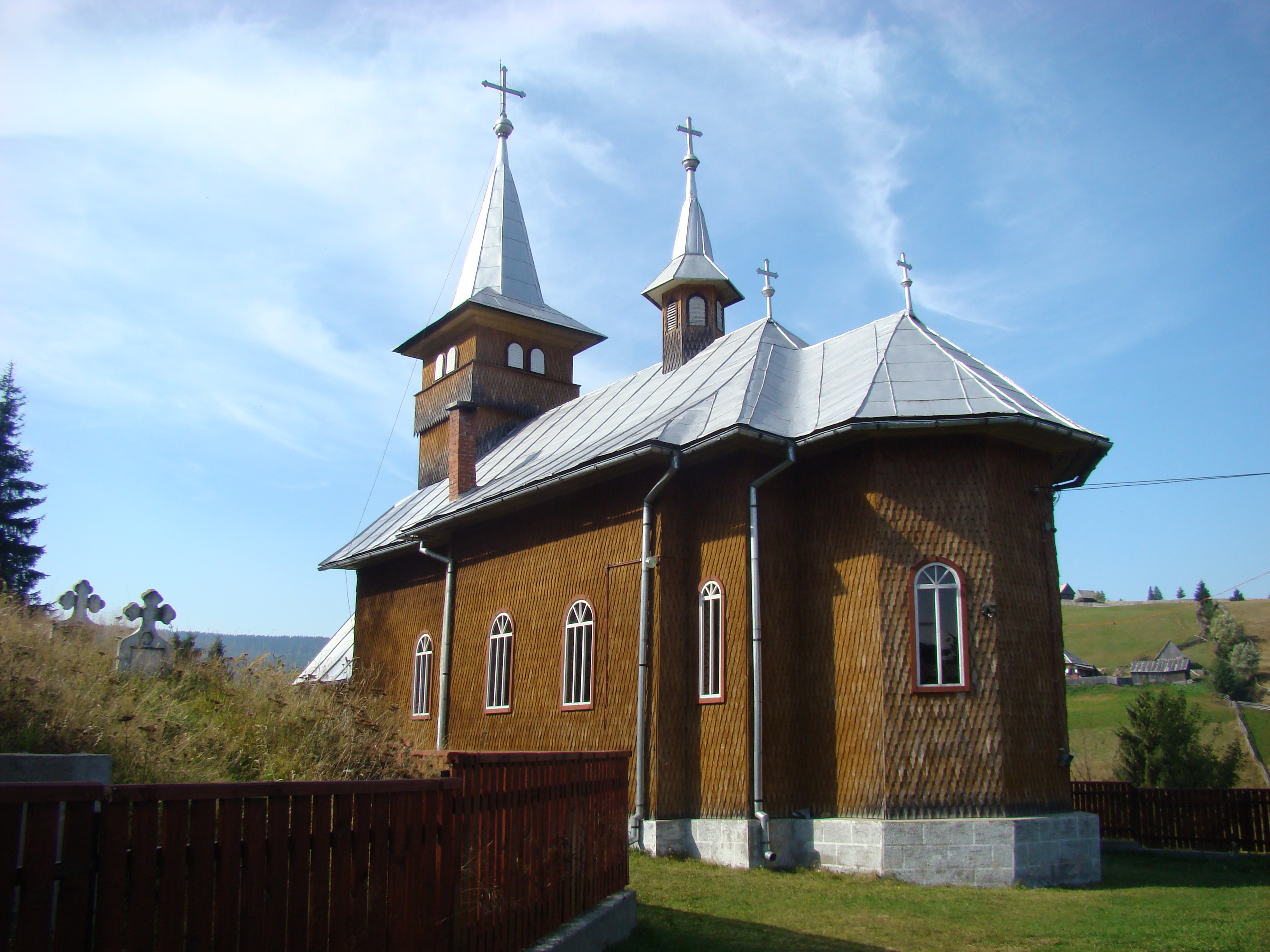 Wooden church in Poiana Horea, Cluj County, Romania